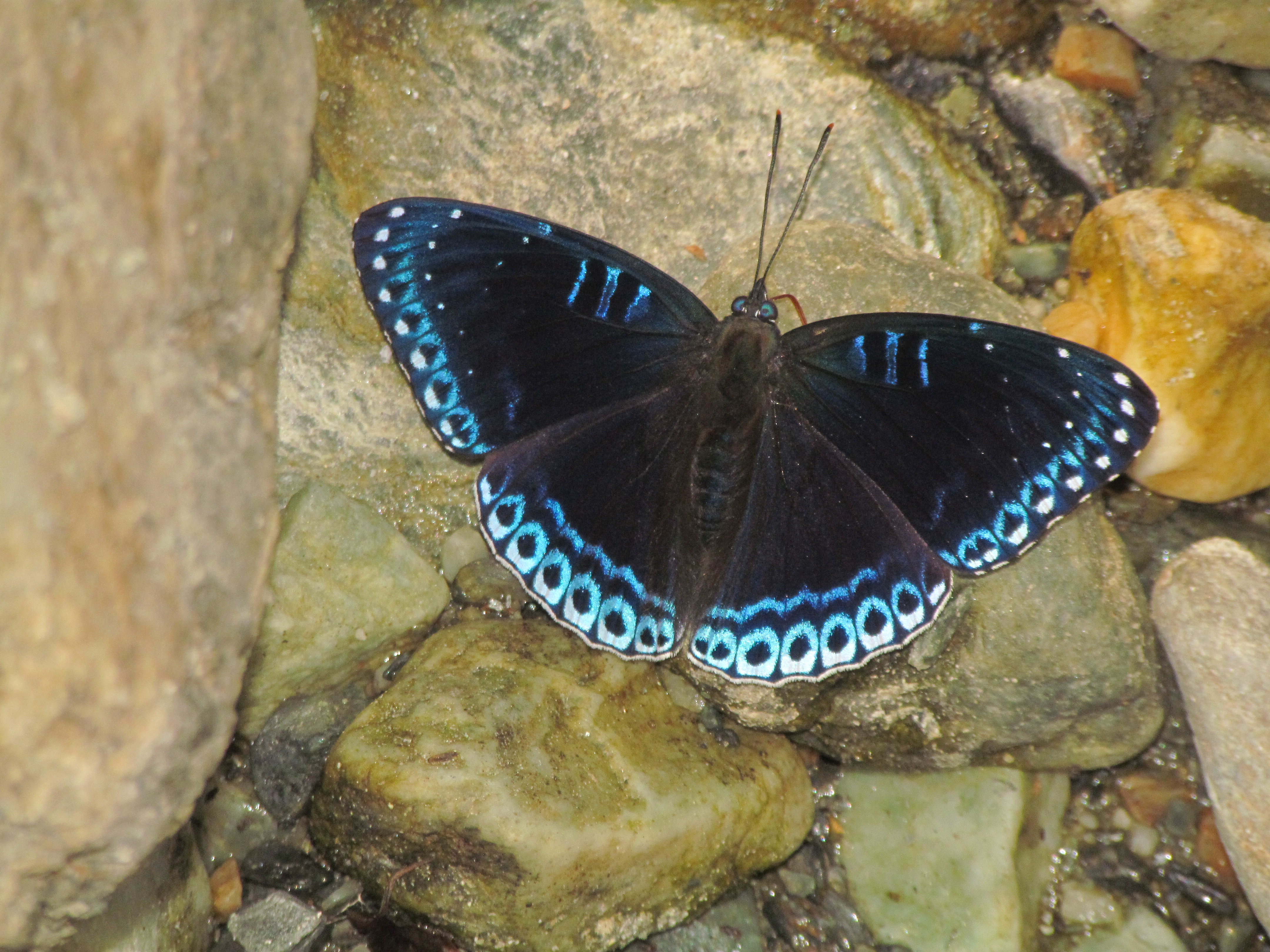 Open wing of Stibochiona nicea Gray, 1846 – Popinjay. Subspecies: Stibochiona nicea nicea Gray, 1846 – Himalayan Popinjay